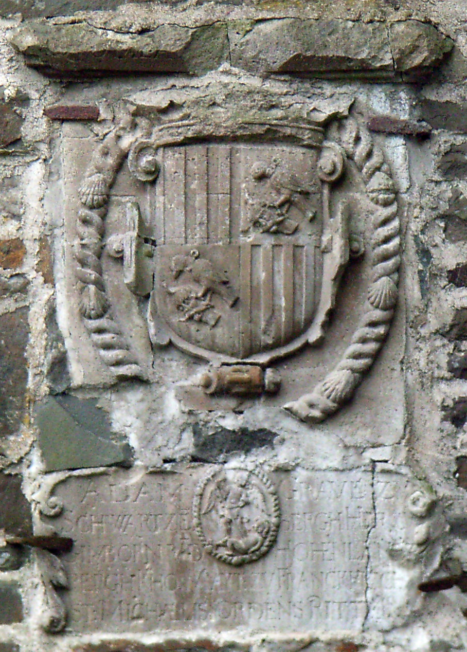 Coat of arms of Adam von Schwarzenberg. Gimborn castle, district of Marienheide, North Rhine-Westphalia, Germany.